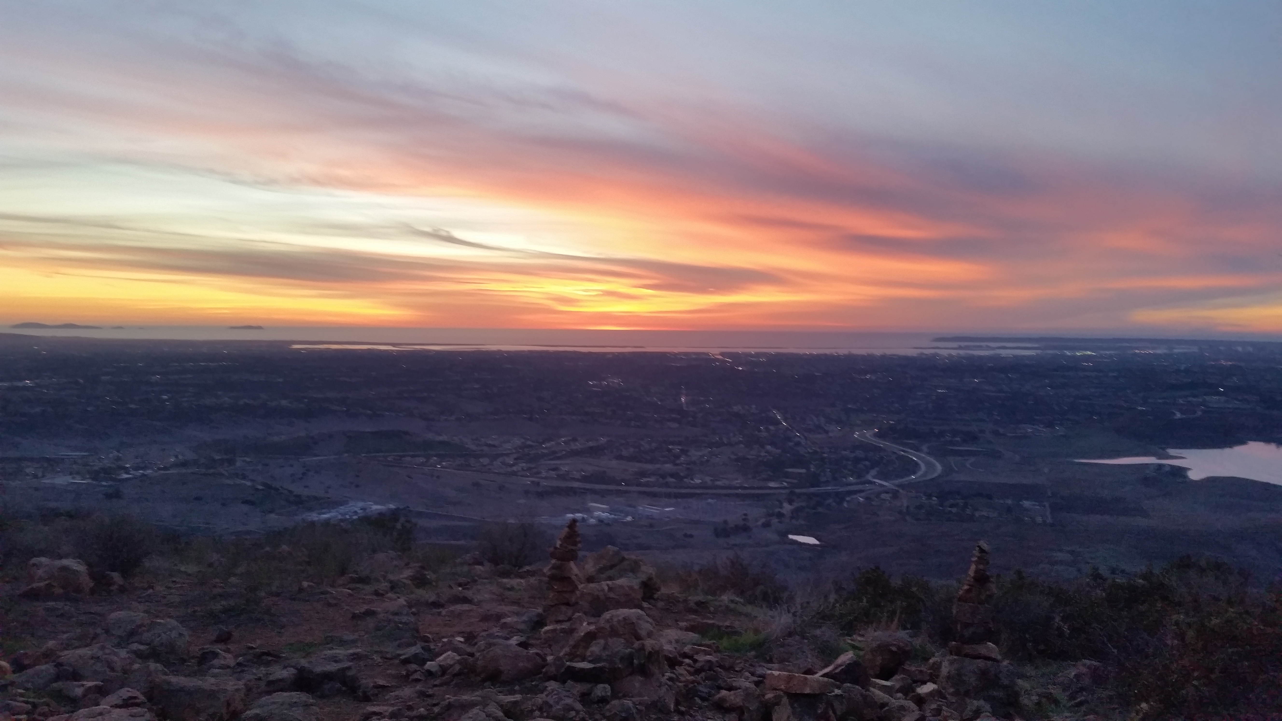 Taken atop Mother Miguel Mountain, just after sunset, showing Mexico's Coronado Islands and United States' San Diego Bay